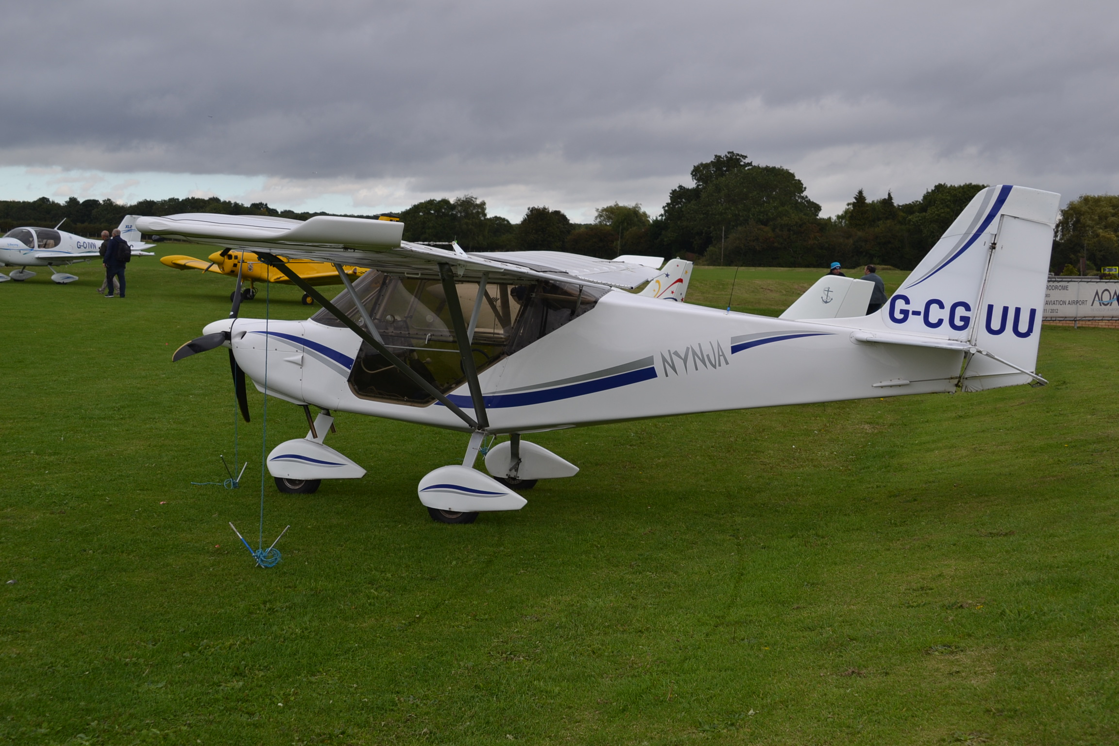 Best Off Skyranger at the Light Aircraft Association,(LAA,) Rally,Sywell, 30/08/14.